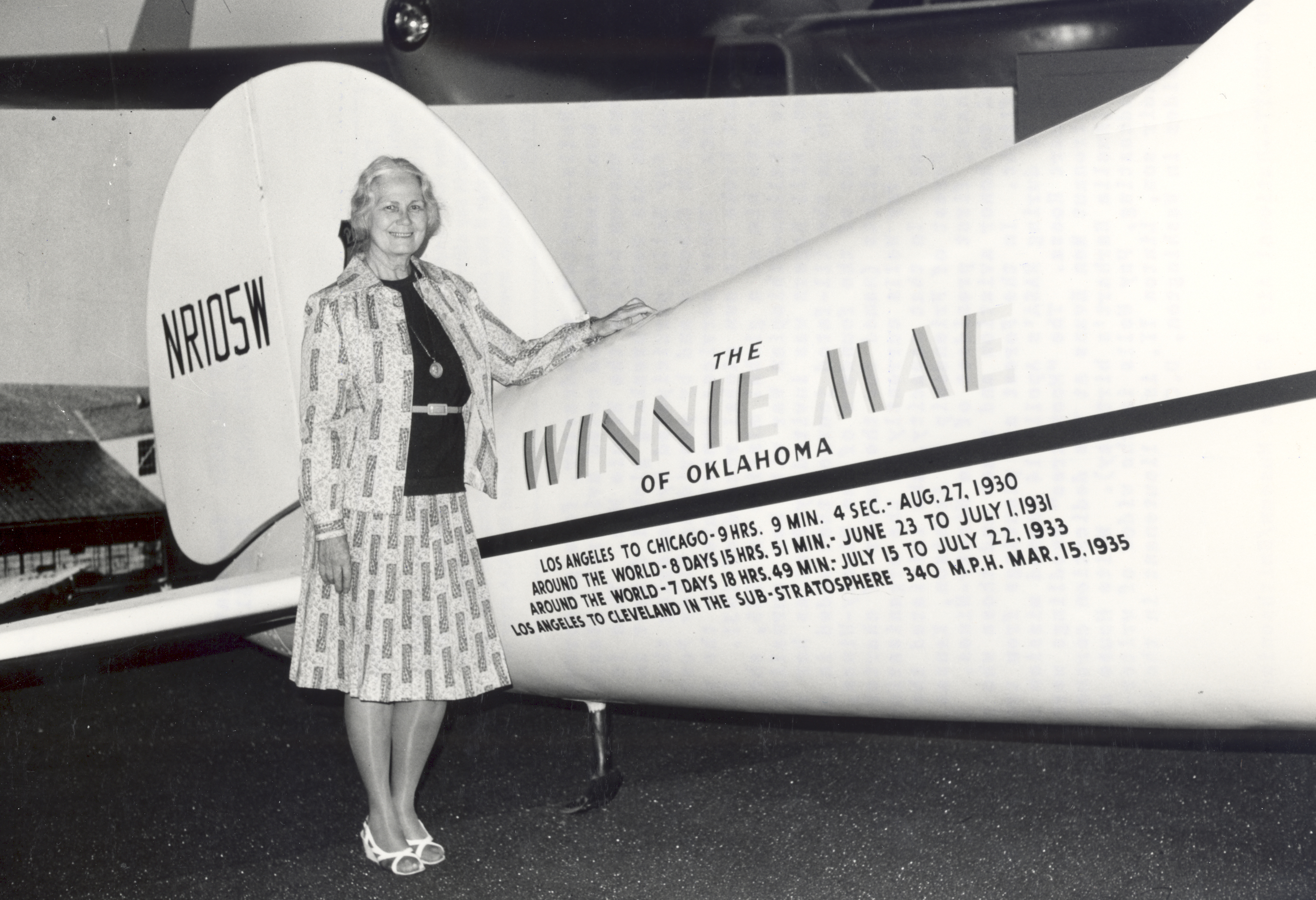 Fay Gillis Wells, writer, broadcaster, foreign correspondent, sailor, designer of boat interiors and noted aviatrix, stands in the National Air and Space Museum beside the Winnie Mae. This is the plane in which Wiley Post made his record-breaking global flight in 1933. Fay Wells participated in Posts achievement by managing the fuel dumps for the Winnie Mae in Siberia and by providing Wiley Post with the maps and navigation data. These services contributed to the success of the flight by which Post broke his own global record of 1931. Invited by Wiley Post to fly with him on a global mission in 1935, she decided instead to cover the Italian-Ethiopian War with her journalist husband, Linton Wells. Thus, Will Rogers was invited by Post as her replacement and went with him on the ill- fated journey that ended in an air crash fatal to both men. One of the founders of the Ninety-Nines, an association of licensed women pilots (named for the number of charter members) established in 1929, Fay Wells later became the organizations Bicentennial program chairman. In that capacity, she initiated the founding of the International Forest of Friendship in Atchison, Kansas, hometown of Amelia Earhart, the first president of the Ninety-Nines. The forest was established to honor aviation and space and those who pioneered in air and space flight. In the forest are plantings from tree seeds flown in lunar orbit during NASAs Apollo 14 mission to the Moon by astronaut Stuart Roosa. Apollo 17 astronaut Ron Evans planted the "Moon tree" seedlings at the dedication ceremony in Atchison on July 24,1986 (Amelia Earharts birthday).